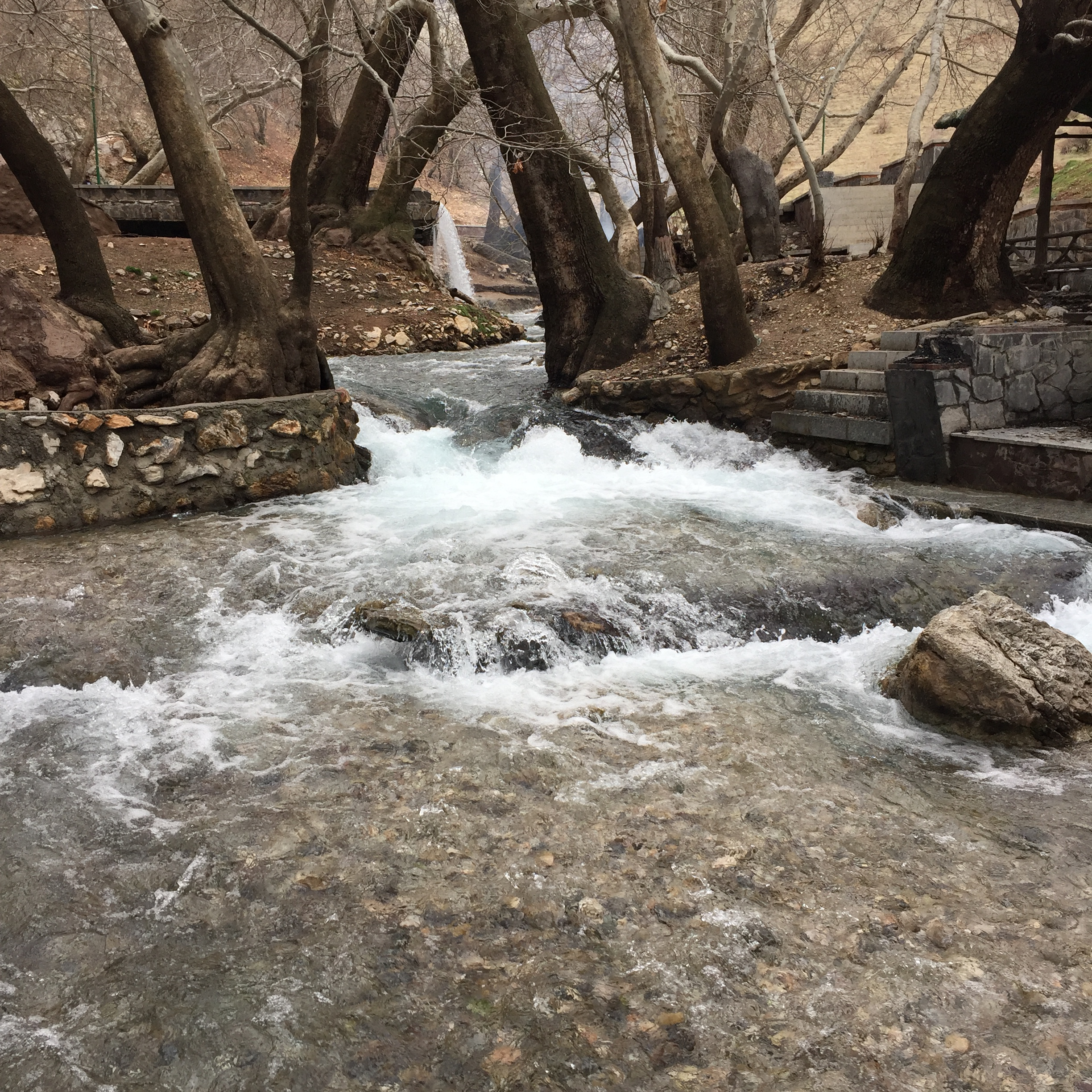 Giyan spring head, Nahavand, Iran